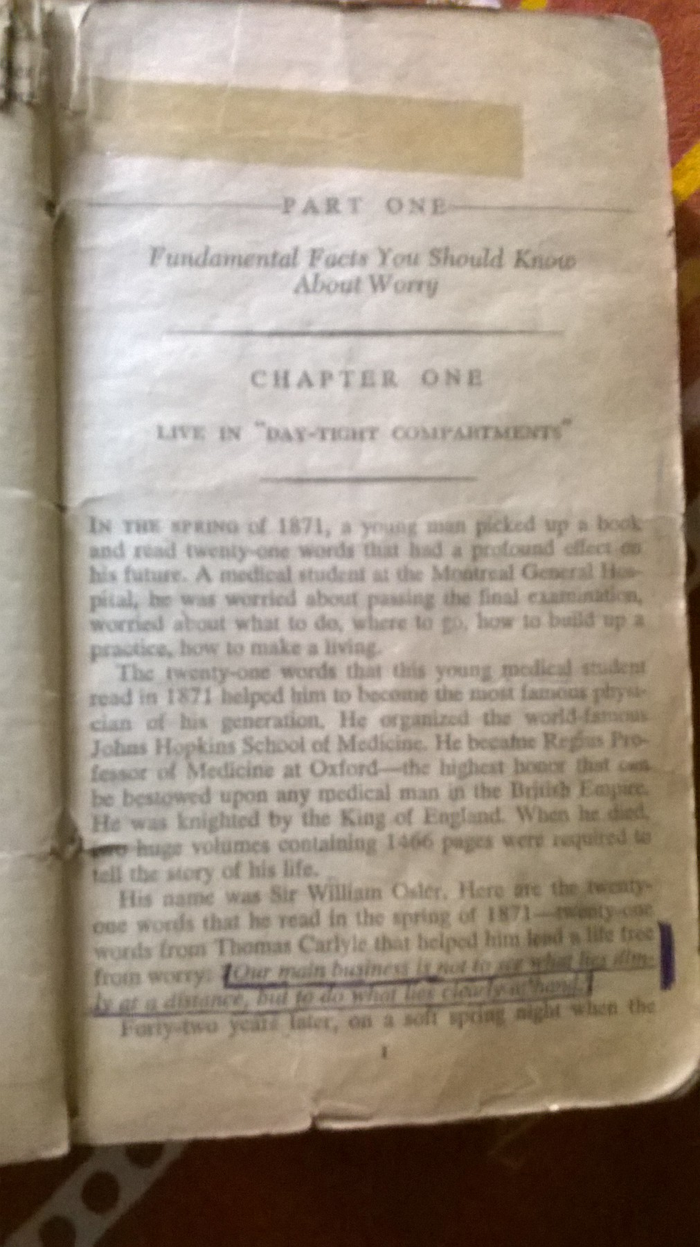 First Edition